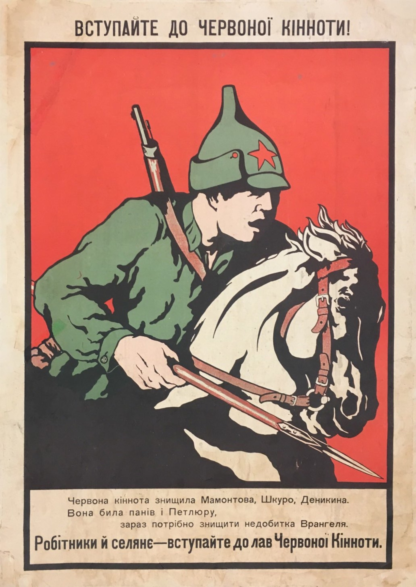 "«Join the Red Cavalry!»" poster of the Ukrainian Socialist Soviet Republic (USSR), summer 1920 (war with Poland).